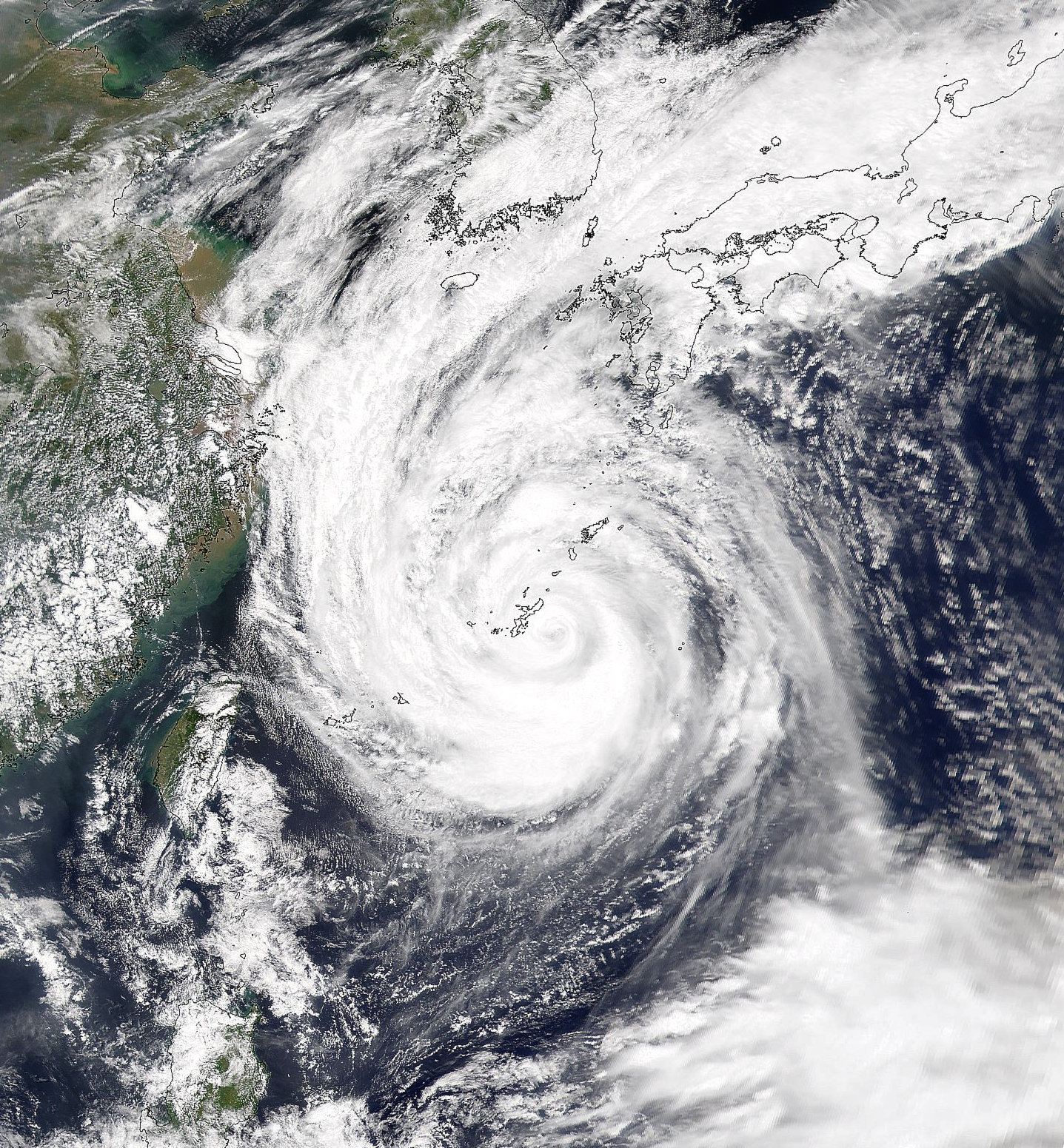 Satellite image of Typhoon Saomai in the East China Sea on September 12, 2000.